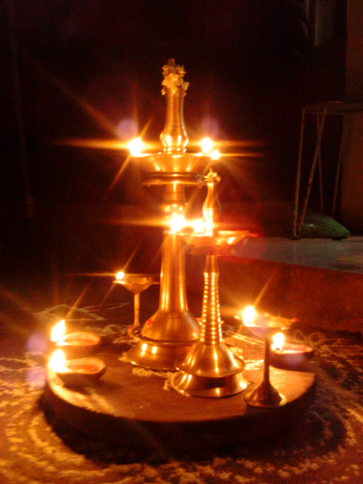 Nilavilakku lit up for Karthigai Deepam